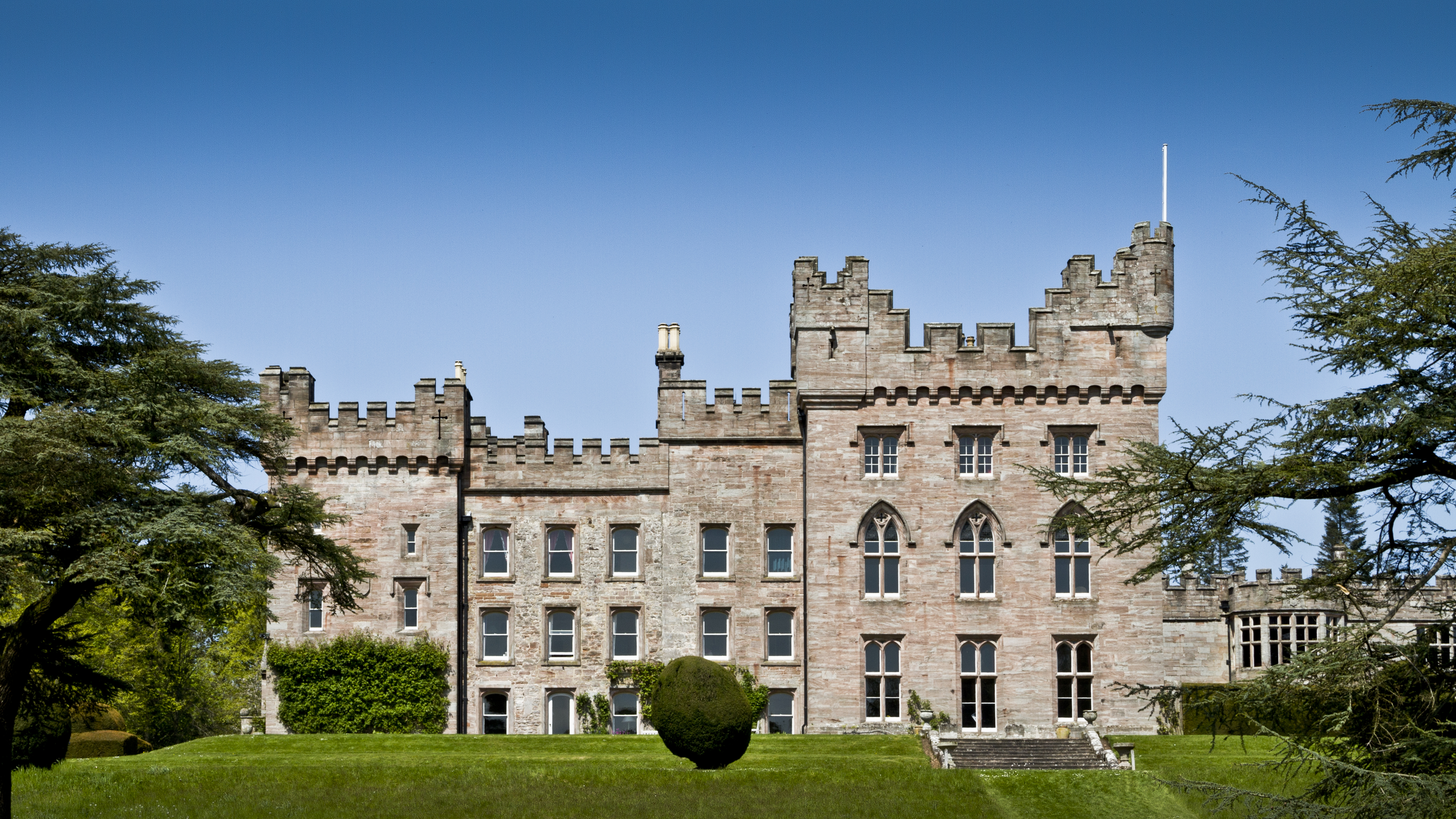 Here is a 4K photograph taken from Hutton in the Forest. Located in Penrith, Cumbria, England.